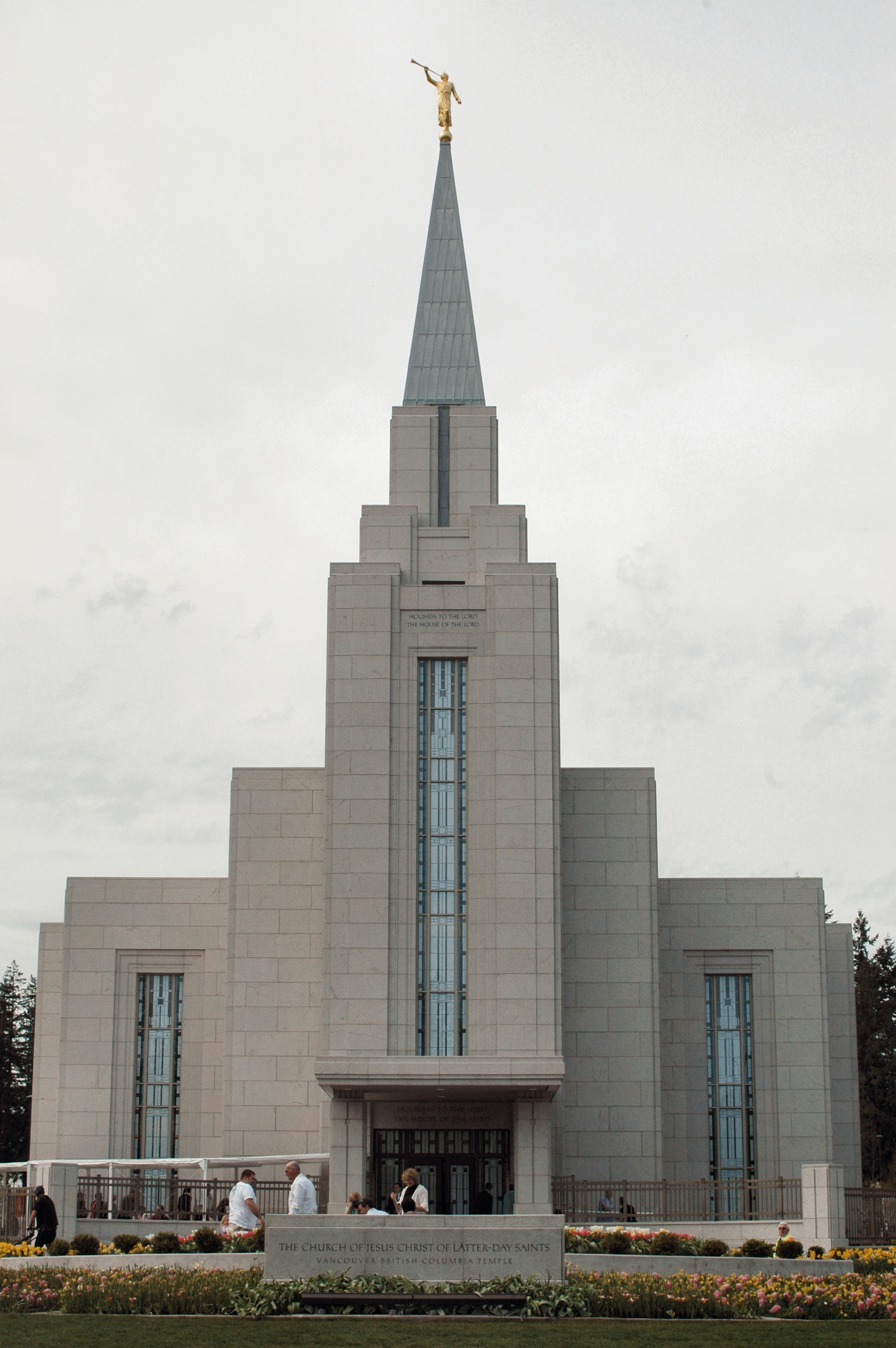 The Vancouver British Columbia Temple of The Church of Jesus Christ of Latter-day Saints, completed and ready for dedication